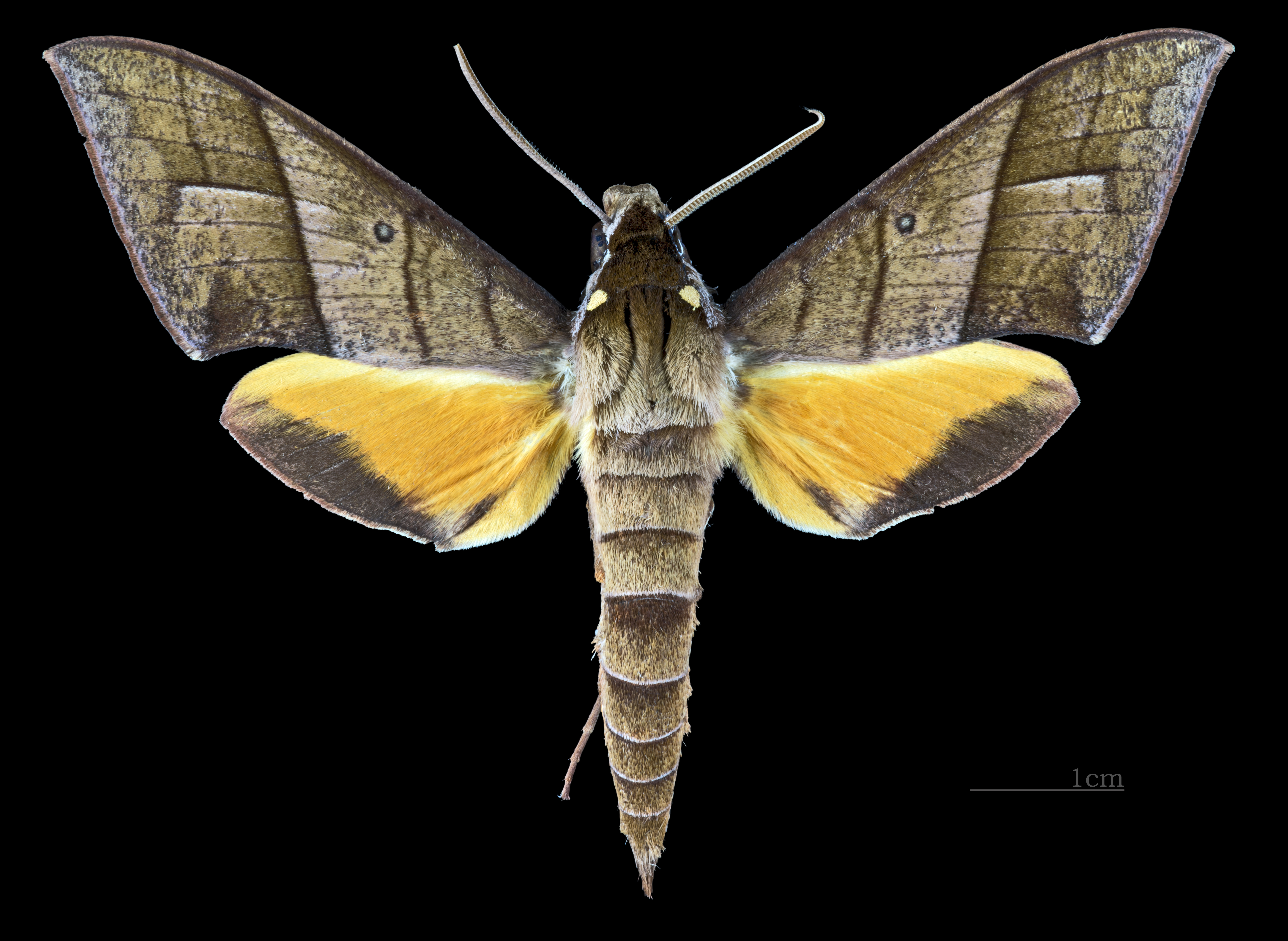 Gnathothlibus heliodes - Dorsal side Collection of the Mathematician Laurent Schwartz